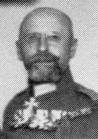 Carl August Otto Franz